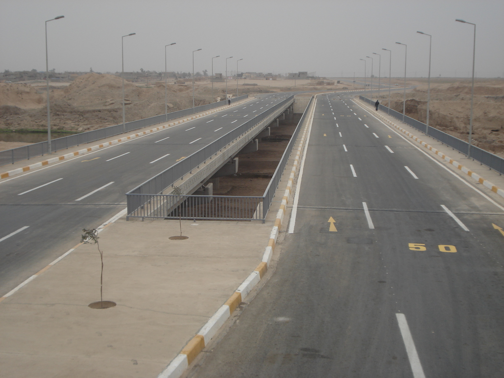 Dumez Bridge Construction in Kirkuk city/ Iraq